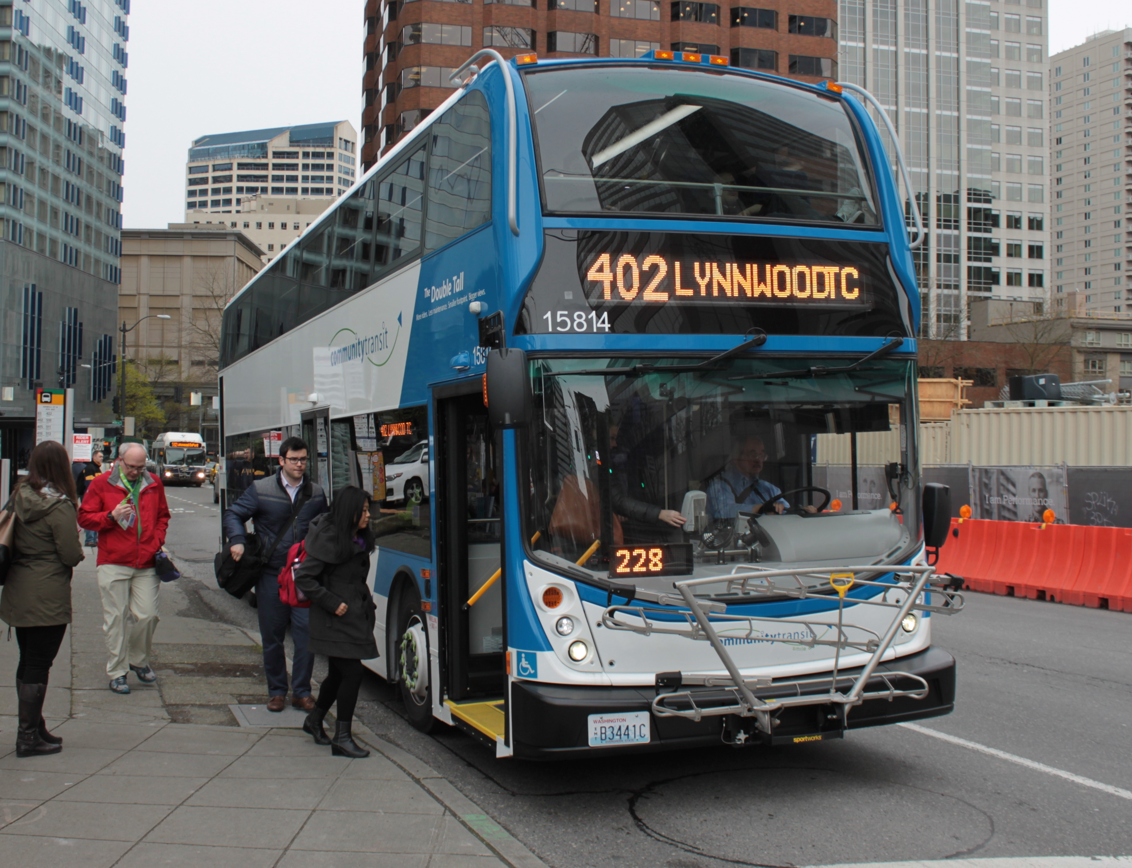 Community Transit 15814, a 2015 Alexander Dennis Enviro500 double-decker bus (branded as "The Double Tall"), boarding passengers on route 402 in Downtown Seattle, Washington. The 2015 fleet is part of the second generation of Community Transit double-deckers, entering service in October 2015 to replace some older articluated buses.